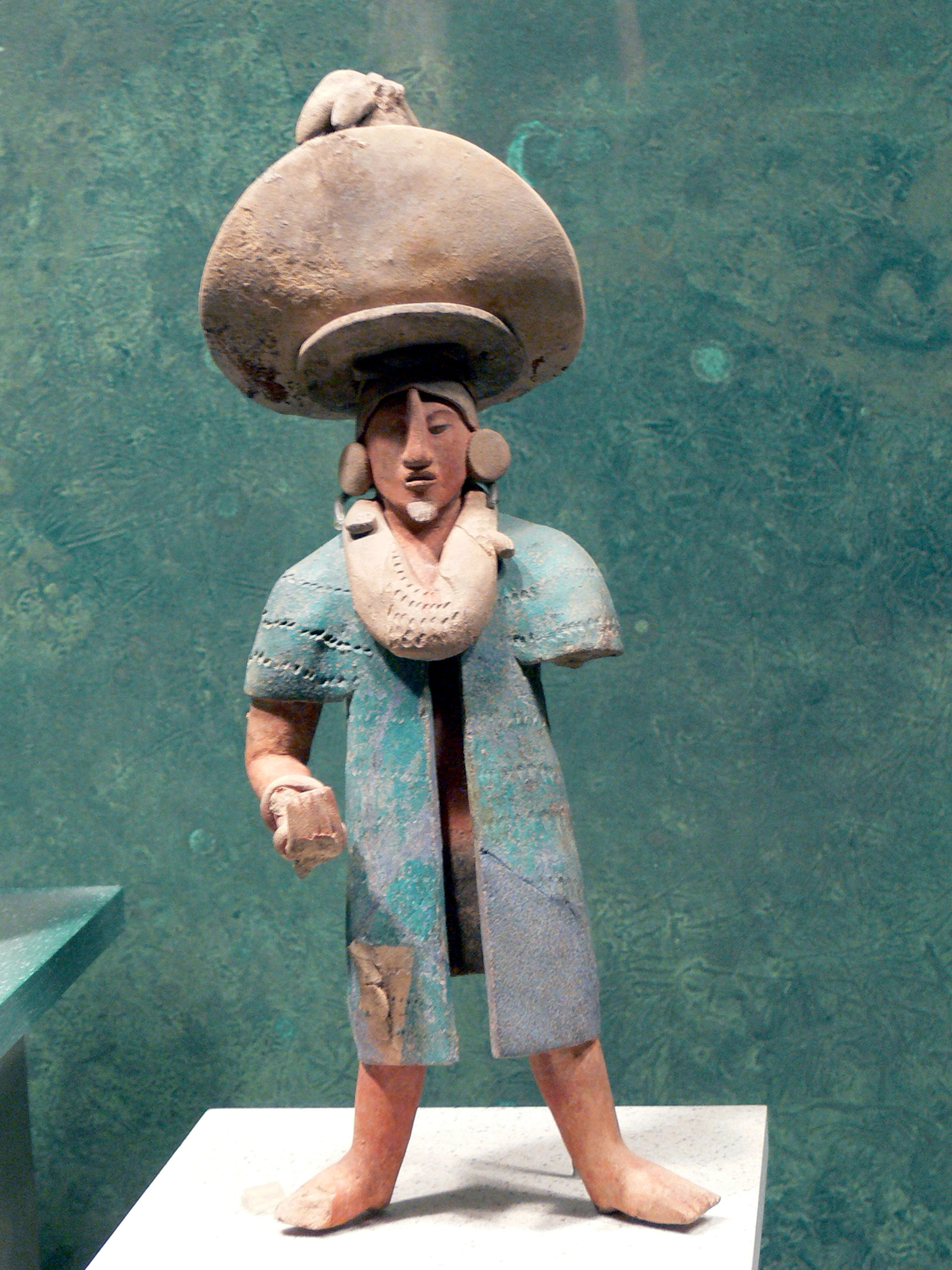 National Museum of Anthropology in Mexico City. Figure of a rich Maya man.